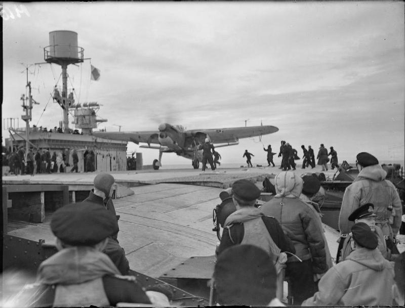 The Royal Navy during the Second World War A Fairey Barracuda of 827 Squadron, Fleet Air Arm returns to HMS FURIOUS watched by other pilots who had returned after taking part in the operations.